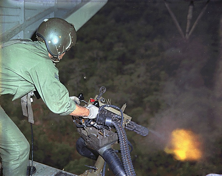 A U.S. Air Force Sikorsky HH-53E helicopter crewman fires a M134 mini-gun during rescue patrol over South Vietnam.